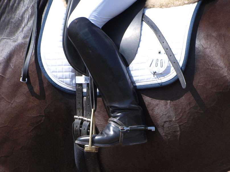 Boot in dressage